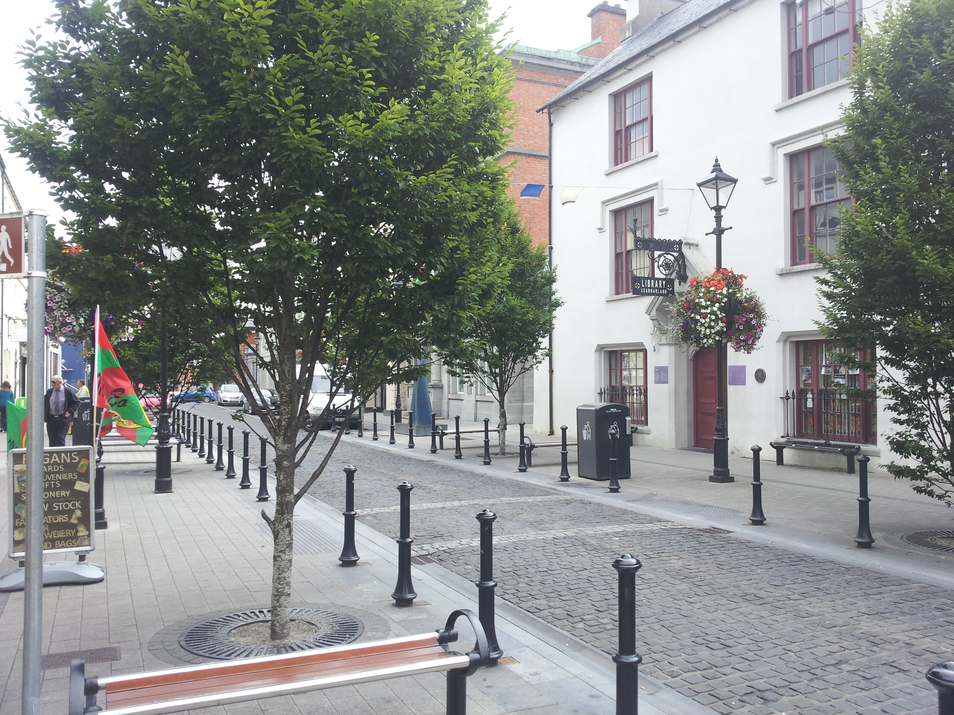 Ballina library, Pearse St. Ballina, Co Mayo, Ireland